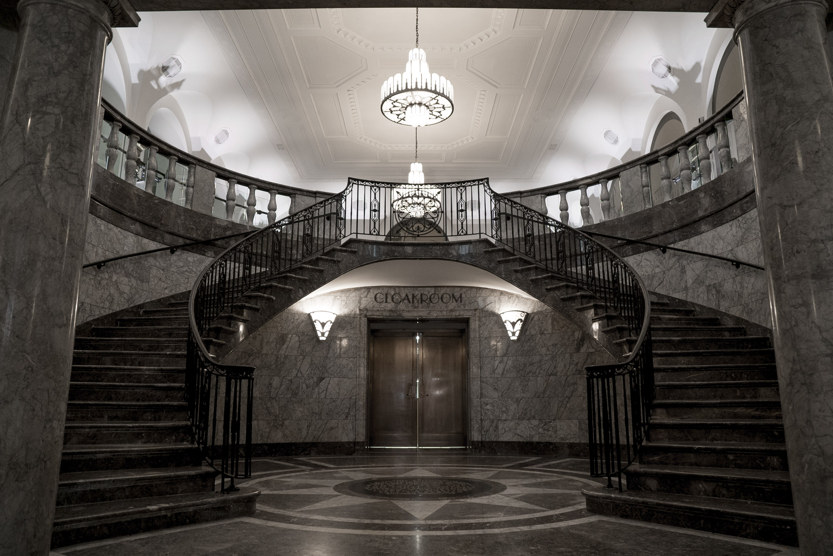 The Grand Staircase at Will & Wall